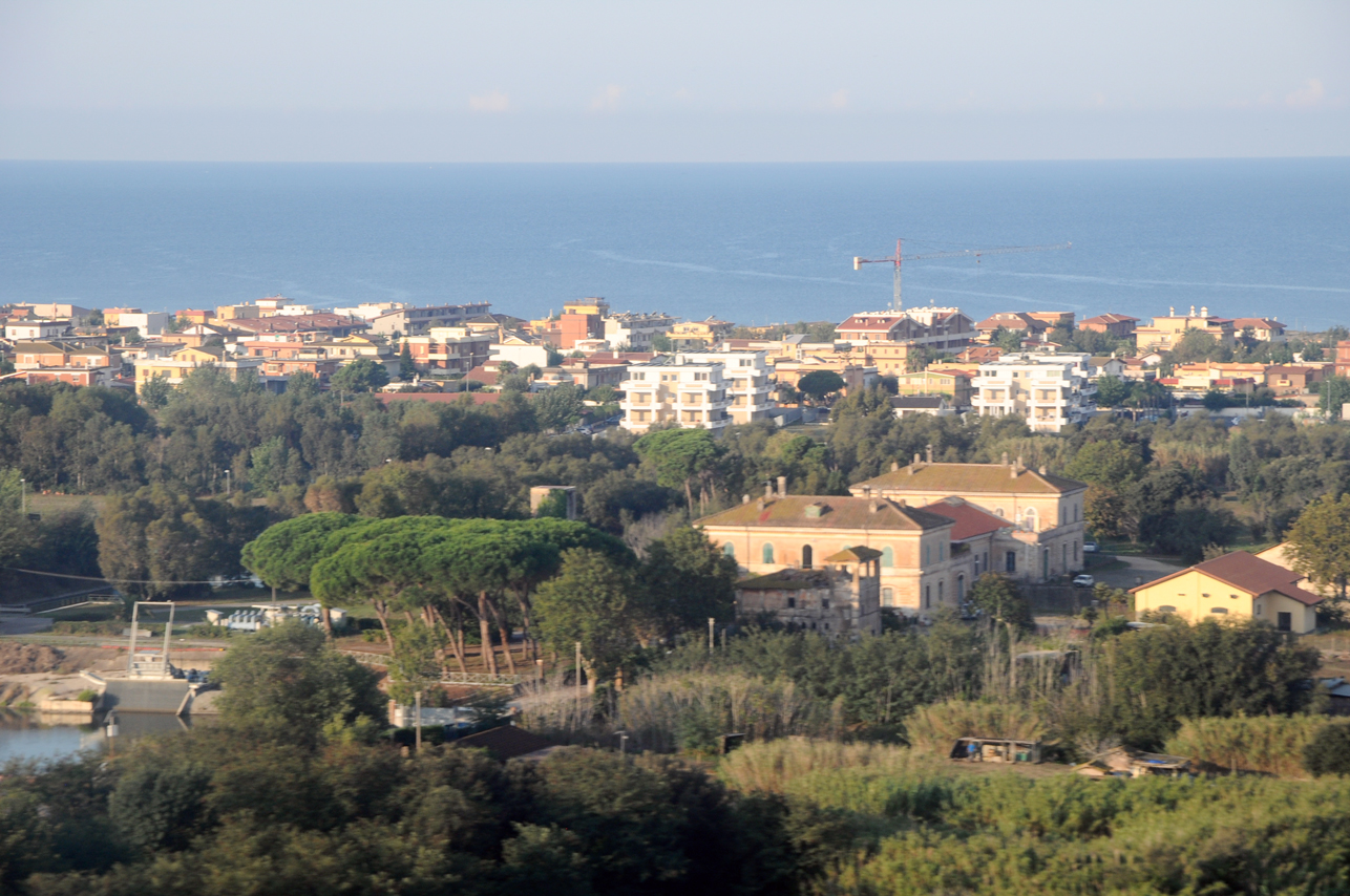 Aerial view of Focene, a suburb of Fiumicino, about 20 km west of the city of Rome. The Tyrrhenian Sea is seen in the background